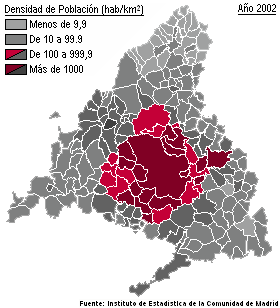 Map of the population density of the municipalities of the Metropolitan Area of Madrid in 2002.